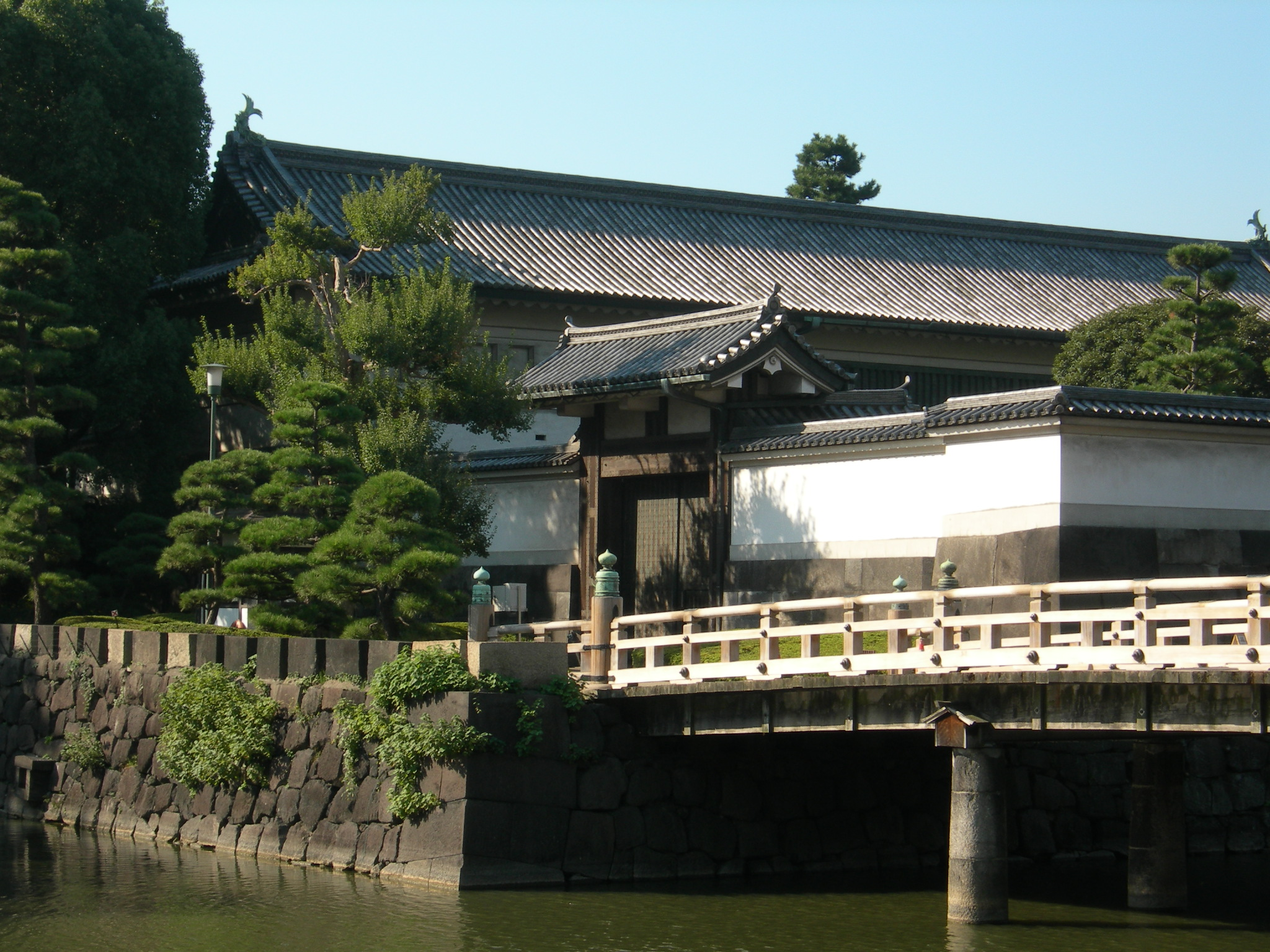 Hirakawa-mon, Edo Castle.